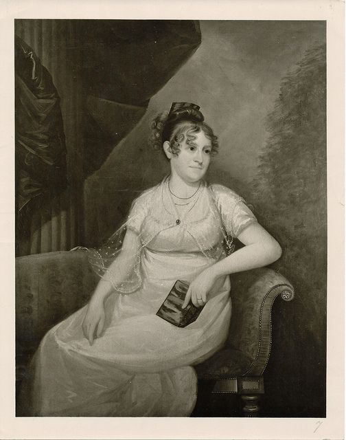 Painting of Hannah Tompkins, wife of Daniel D. Tompkins. Painted by Ezra Ames, c. 1809.